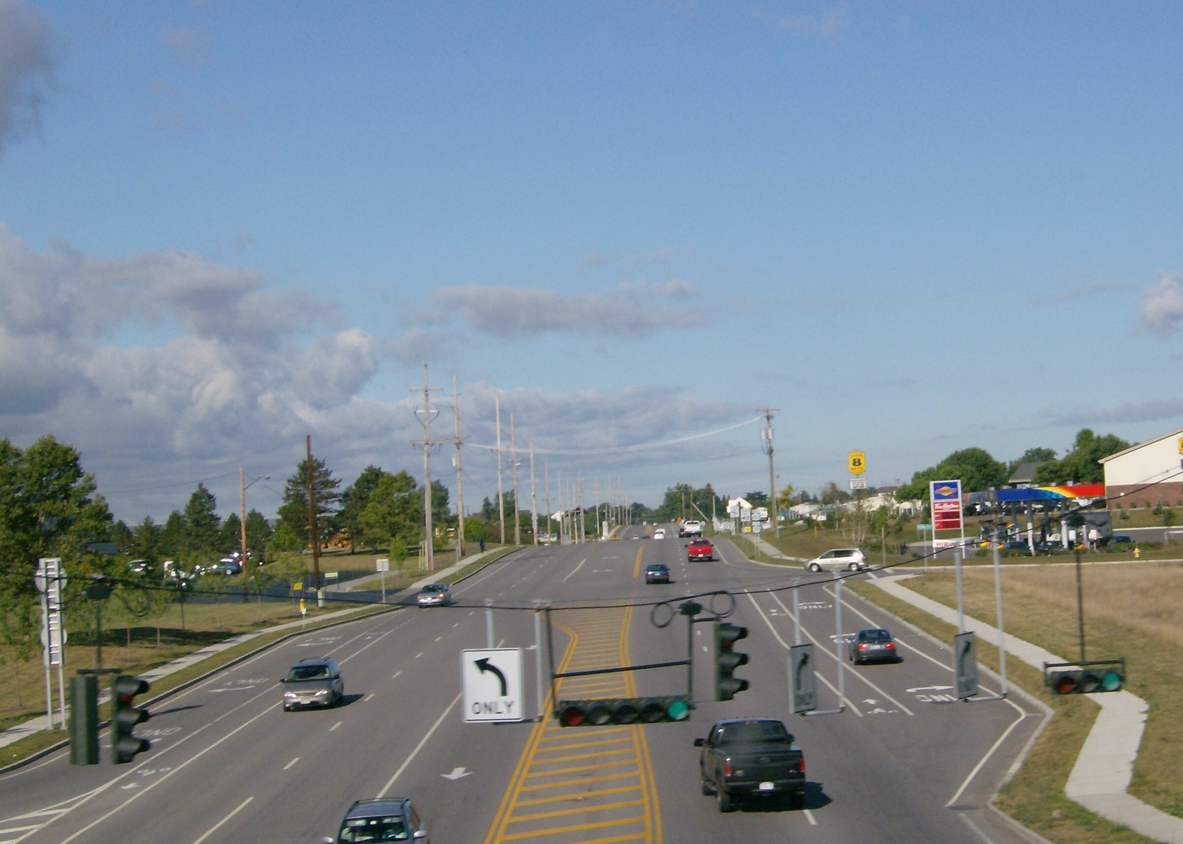 New York State Route 253 westbound as seen from the overpass that carries Interstate 390 over the highway.